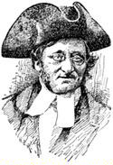 Portrait of David Aaron de Sola, from the 1906 Jewish Encyclopedia.